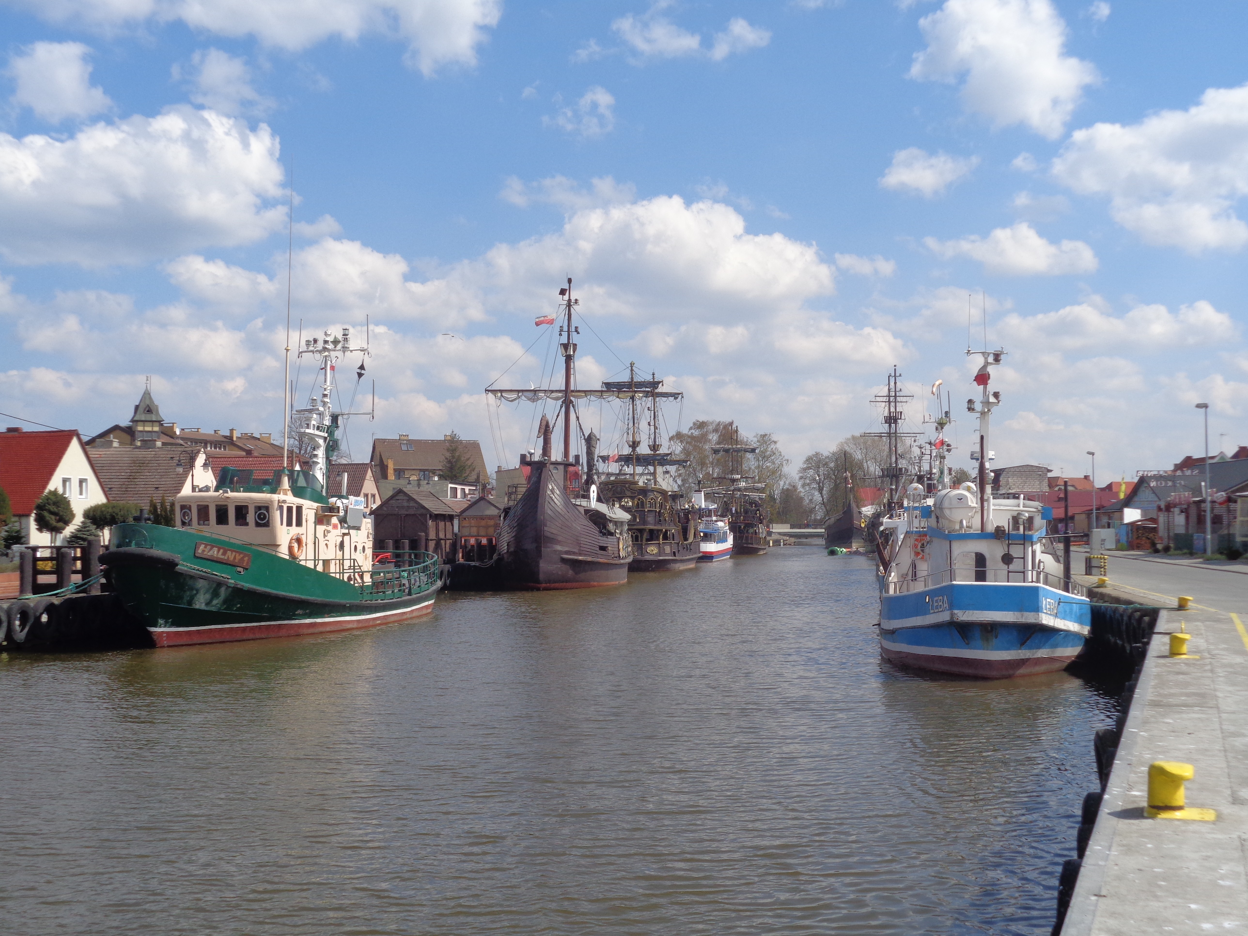 Harbor of Łeba city.